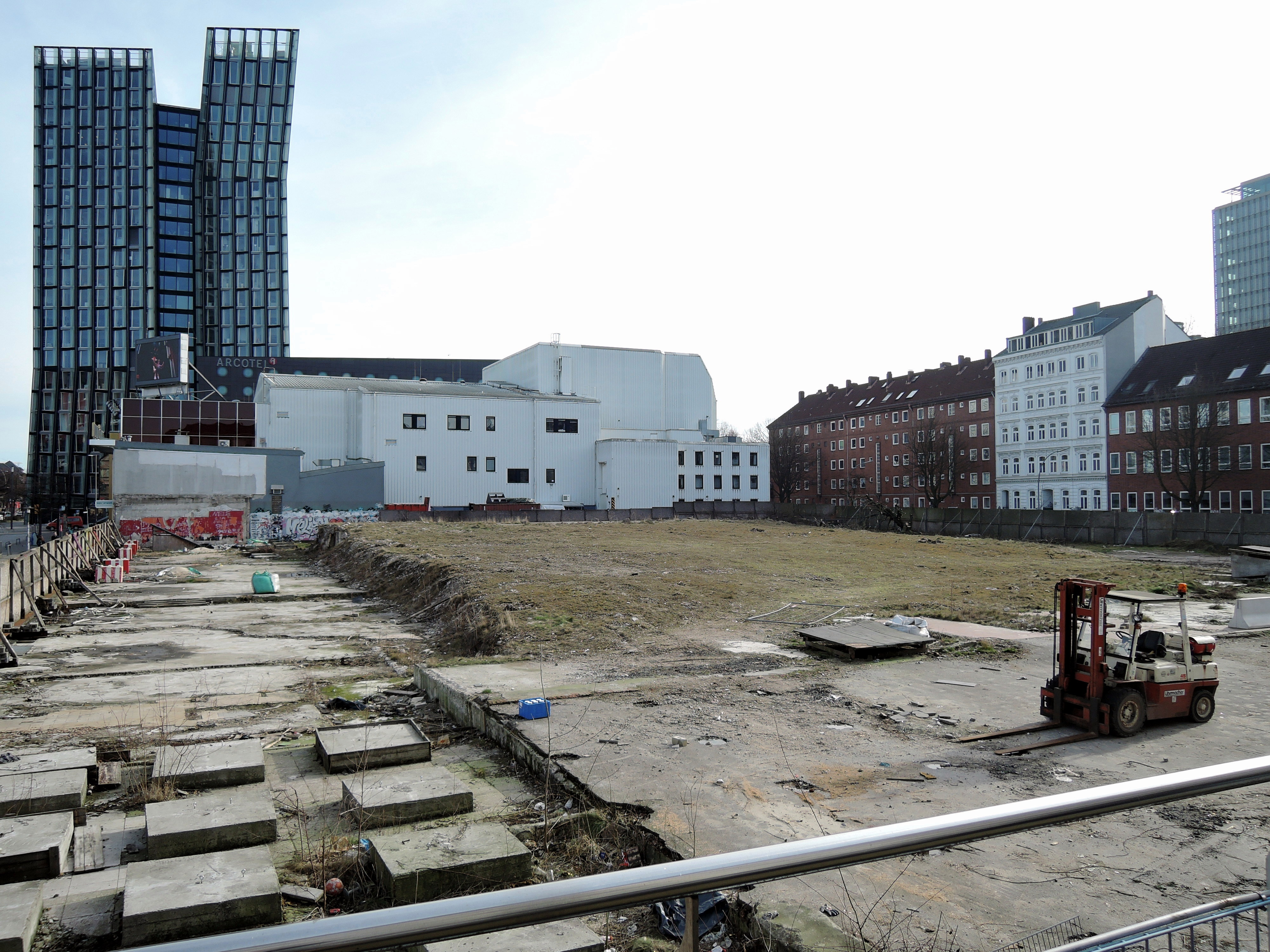 The ESSO-area in February 2019.